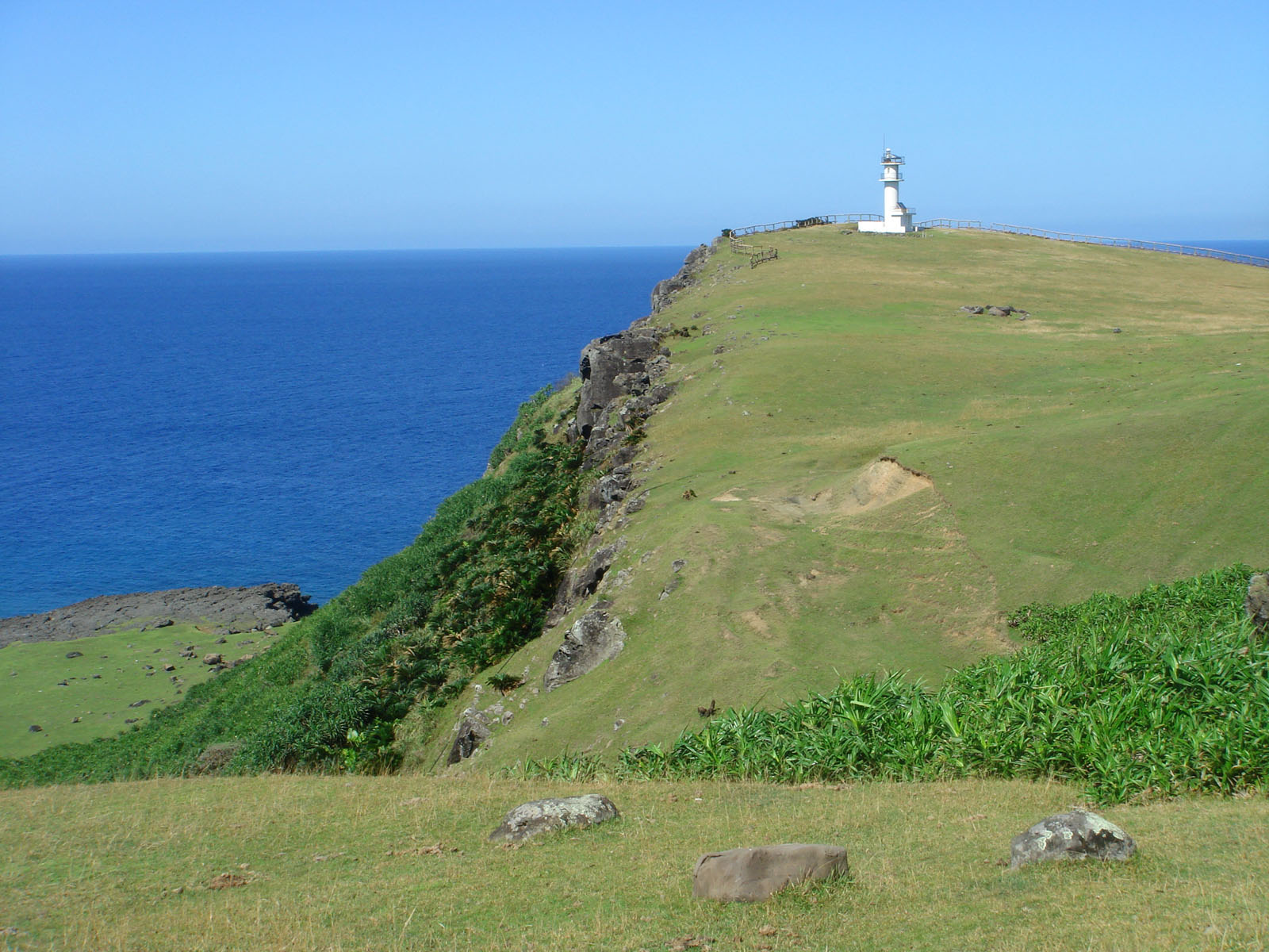 Agarizaki Lighthouse, Yonaguni island / 東崎灯台（与那国島）